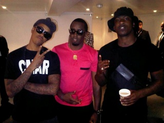 Backstage At Orange Rock Corps With Skepta, P Diddy & Chipmunk